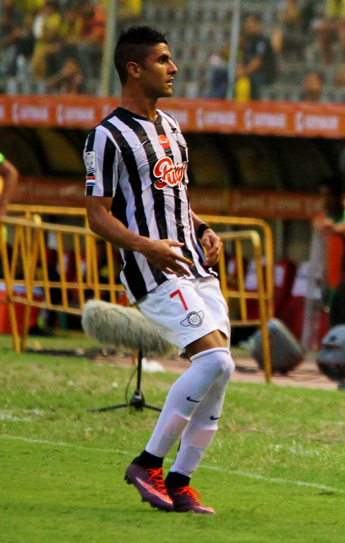 Santiago Tréllez. Guayaquil, Martes 3 de marzo del 2015 (ANDES).-Barcelona enfrenta a Libertad de Paraguay en su primer partido por Copa LibertadoresFoto:César Muñoz/ANDES